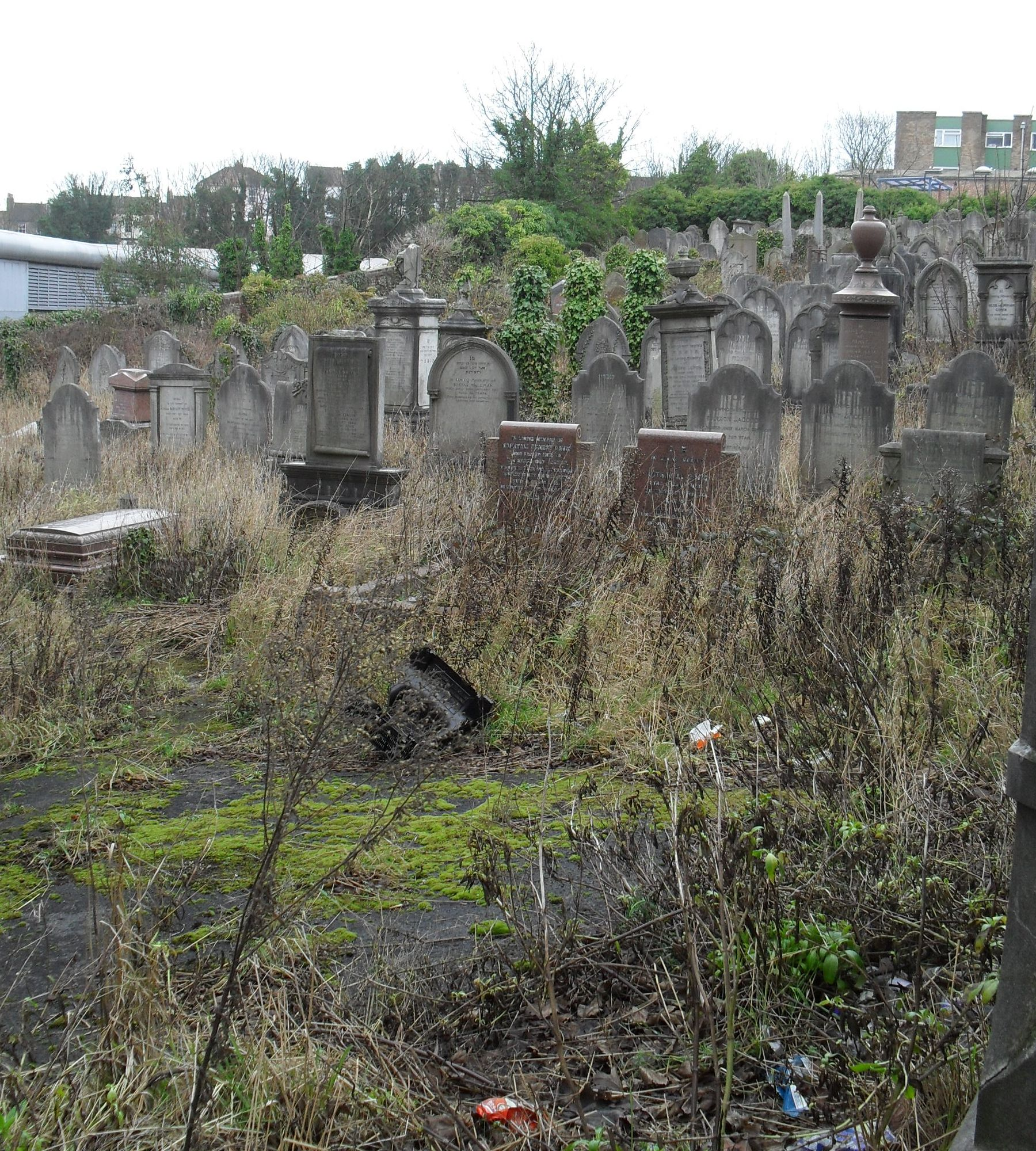 Former Jewish Cemetery, Florence Place, Round Hill, City of Brighton and Hove, England. Founded in 1824 on land given to the Jewish community by Thomas Read Kemp.